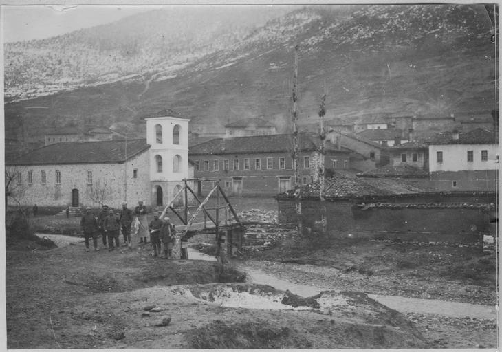 Village of Breznitsa, Greece